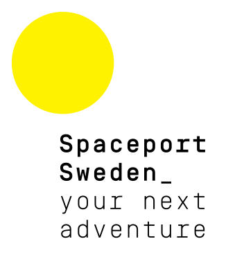 Logotyp Spaceport Sweden. Copyright Spaceport Sweden.